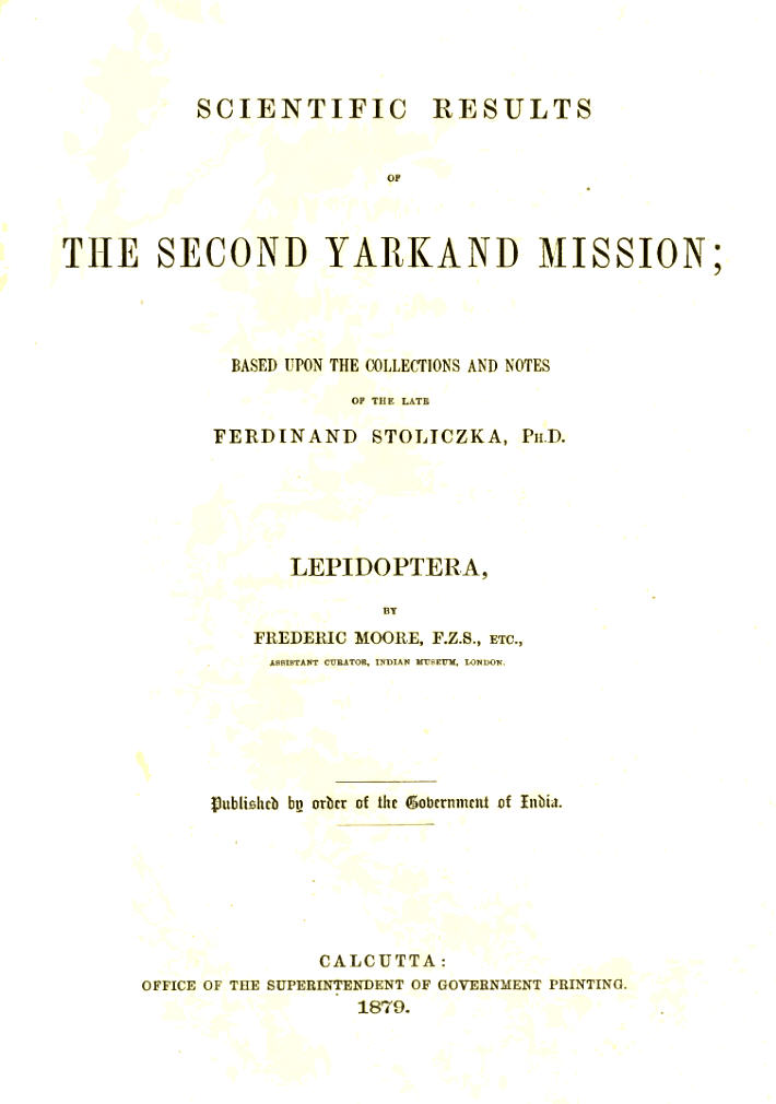 Report of second mission to Yarkand based on collections by Ferdinand Stoliczka